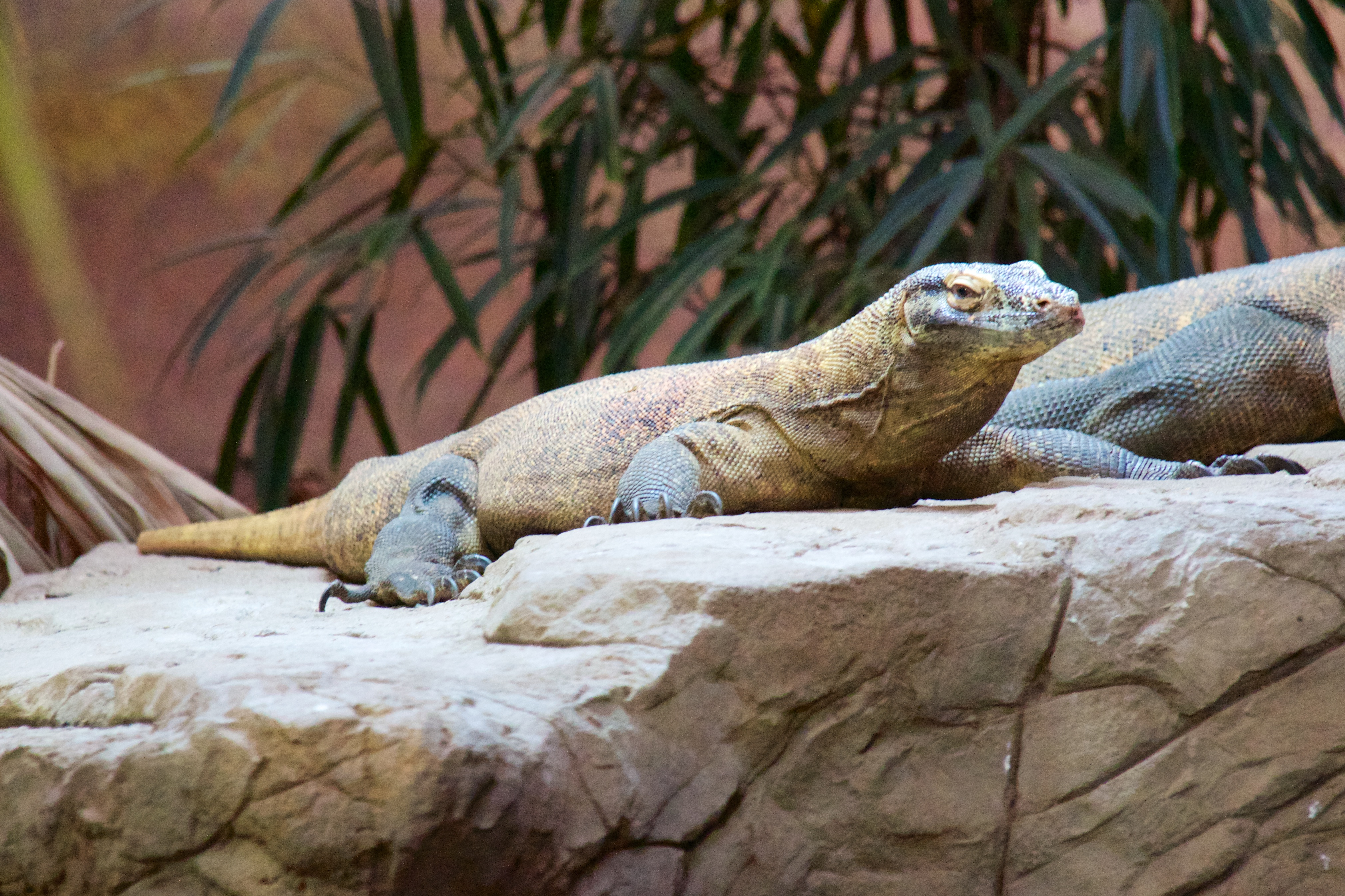 Komodo Dragon. Varanus komodensis. At Chester Zoo.